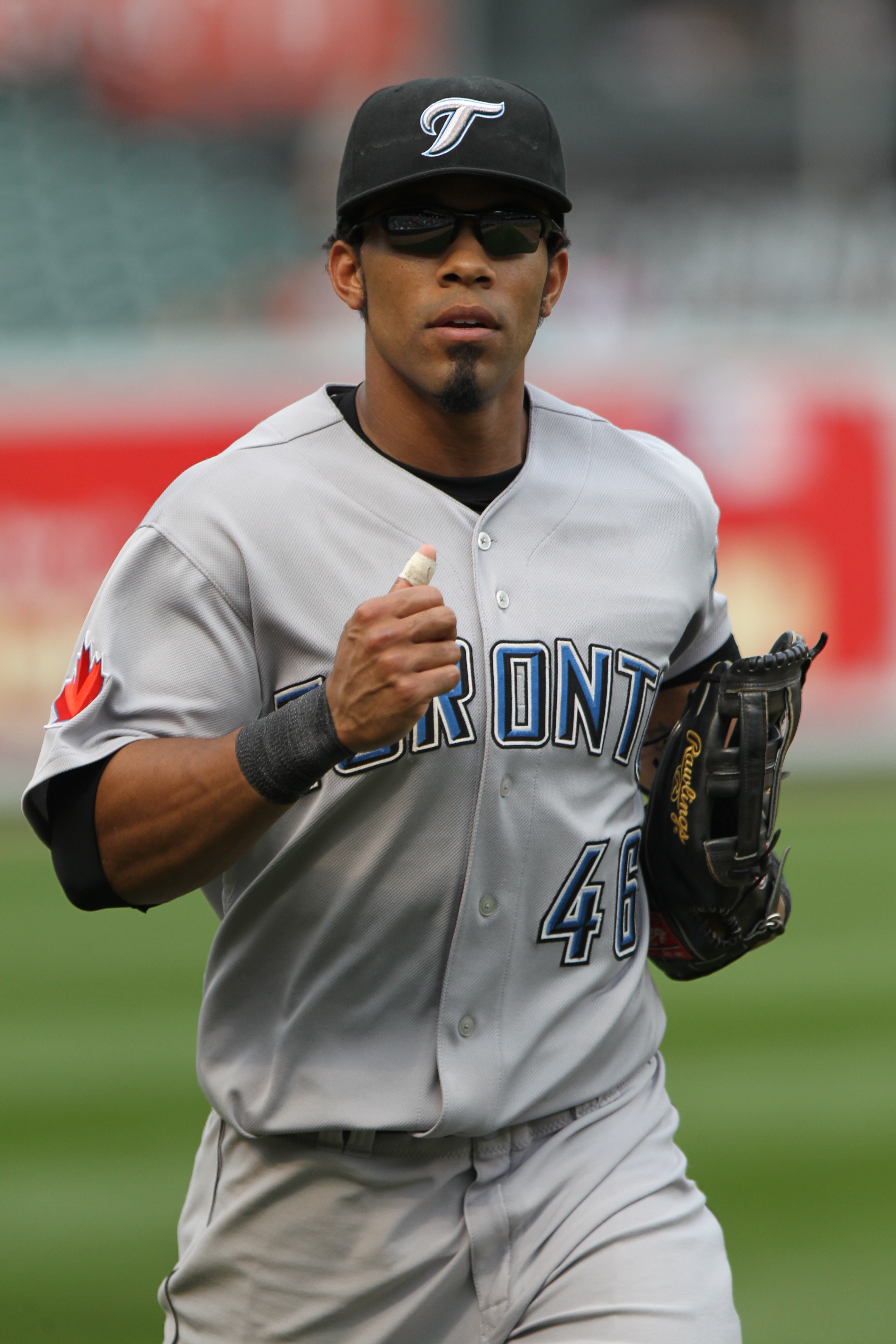 Blue Jays at Orioles September 1, 2011